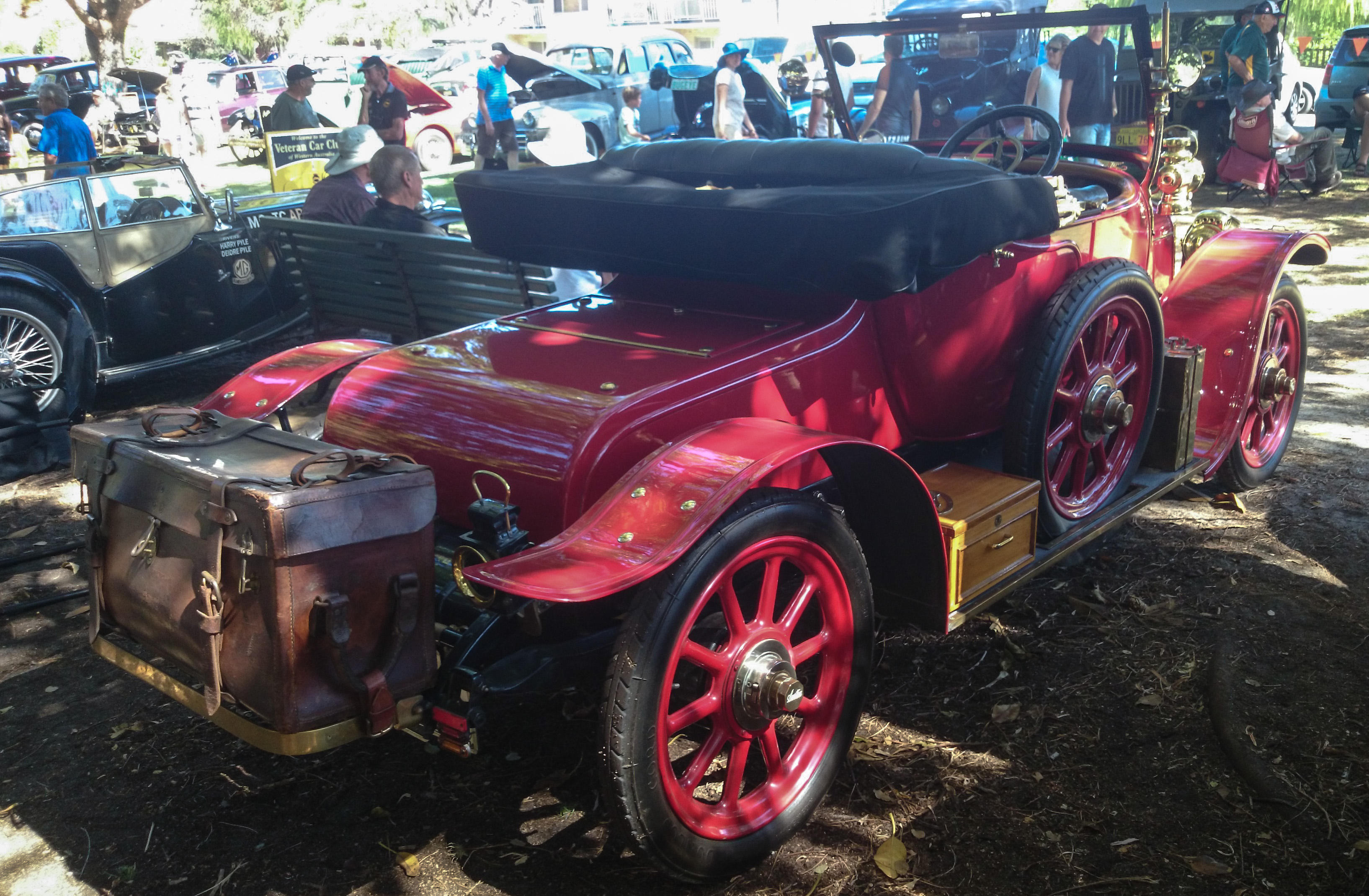 1913 Austin 10 2-seater Aluminium body by Dalgety (Australia)Body style Coquette car 10942 engine 11051 Austin Worldcars Perth WA 3 March 2013